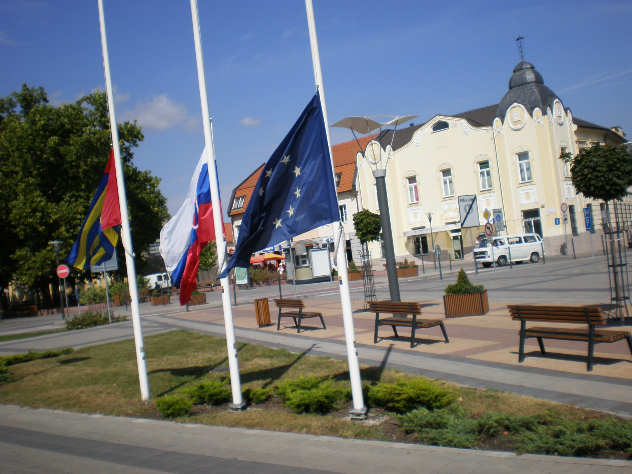 Pesia zona v Sturove